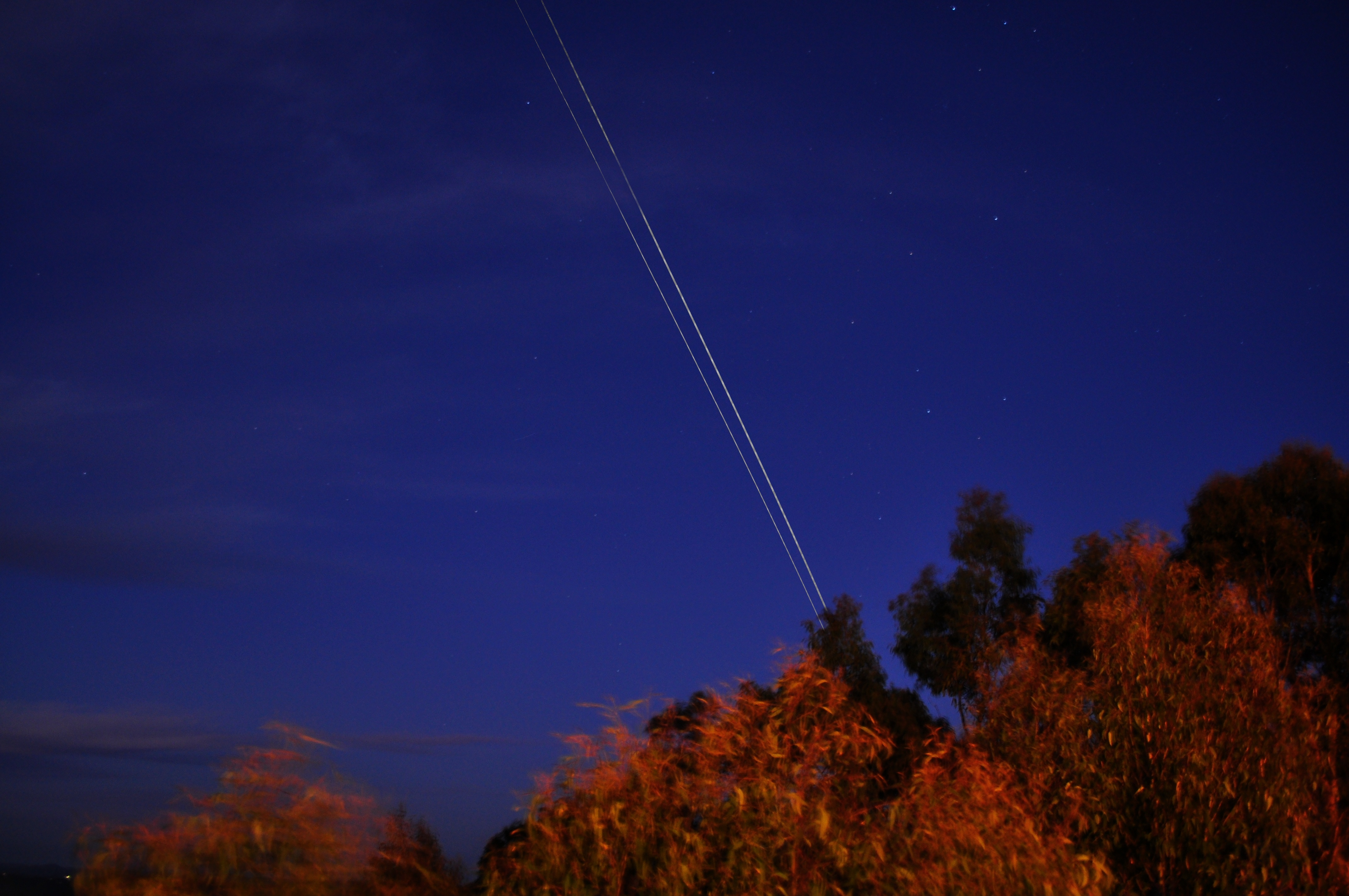 The ISS (brighter right hand trail) and Space Shuttle Atlantis (fainter left hand trail) fly over Adelaide, Australia on the 20/07/11, during the last 24 hours of the last Space Shuttle mission, STS-135. This photo was taken on the summit of Mt Lofty, east of Adelaide and is looking in a south/west direction.